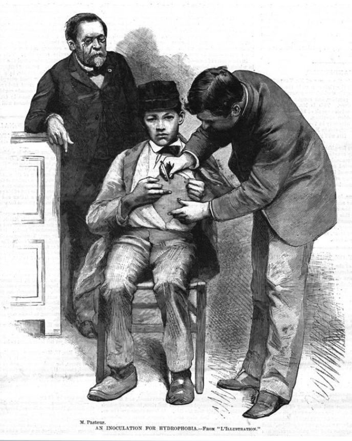 "An Inoculation for Hydrophobia - From L'Illustration," Harper's Weekly 29:1513 (December 19, 1885), p. 836. Bert Hansen Collection, New York